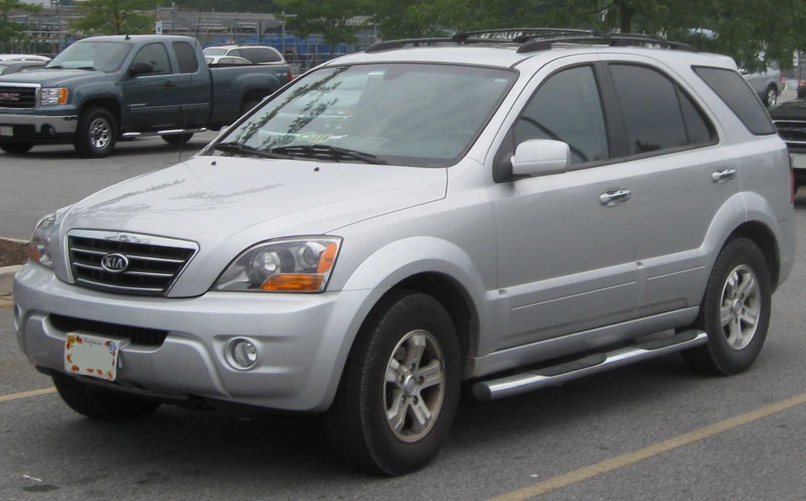 2007-2008 Kia Sorento photographed in Clinton, Maryland, USA.